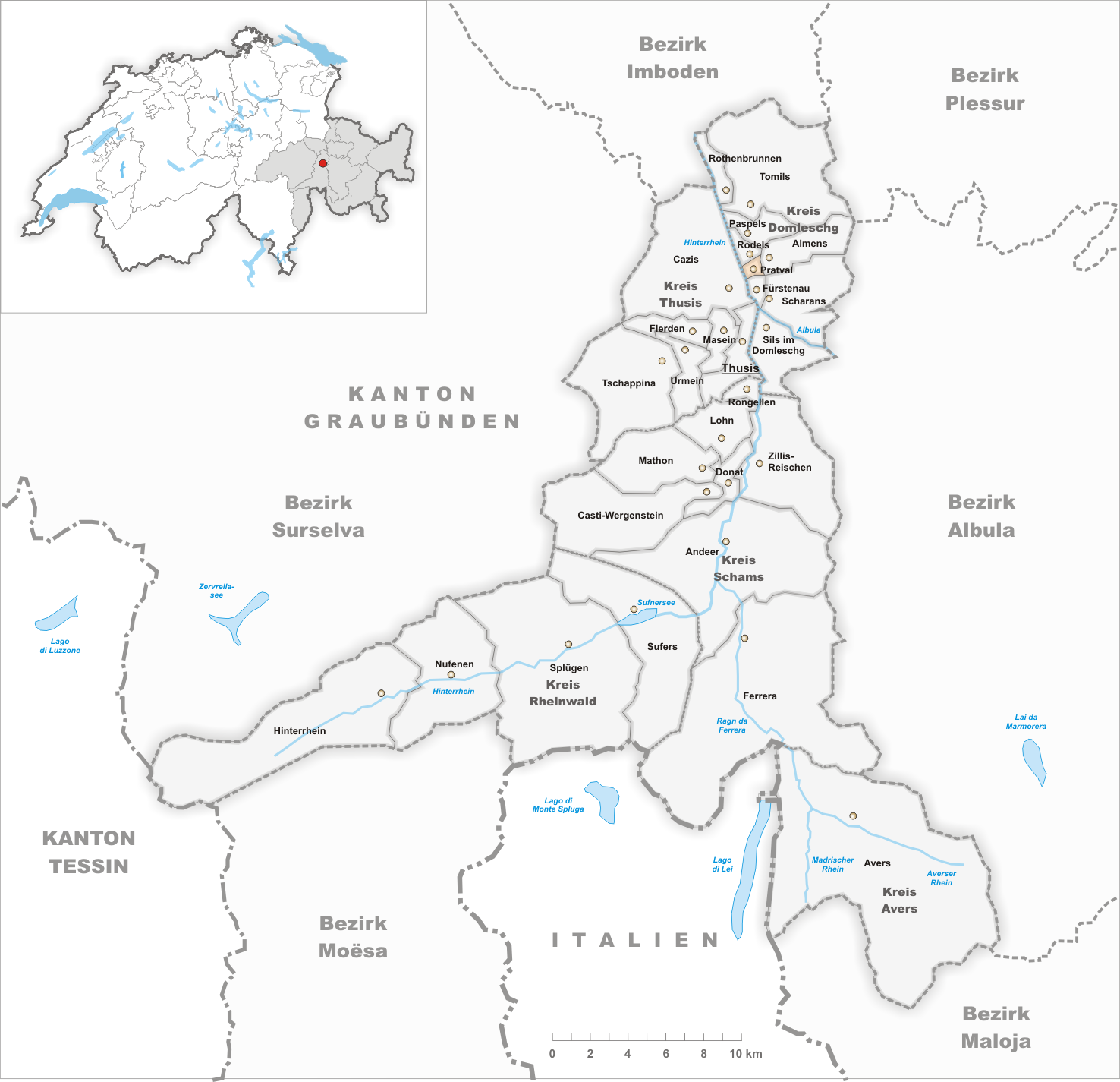 Municipality Pratval